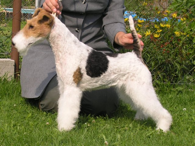 Fox Terrier Wire, tricolor